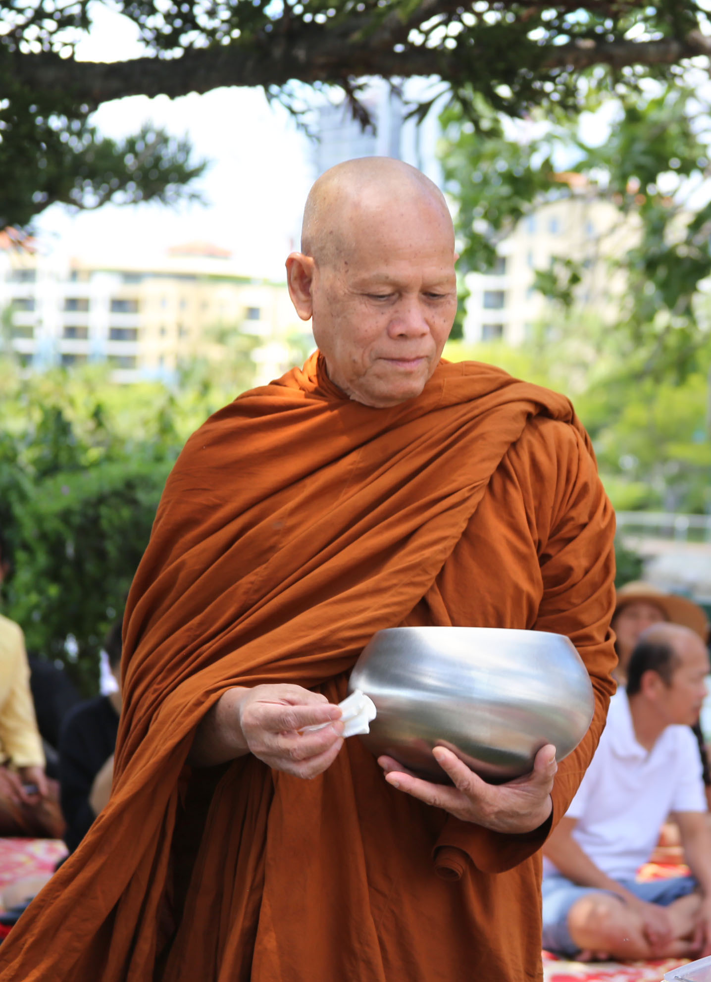 Dhammagiri Forest Hermitage, Buddhist Monastery, Brisbane, Australia